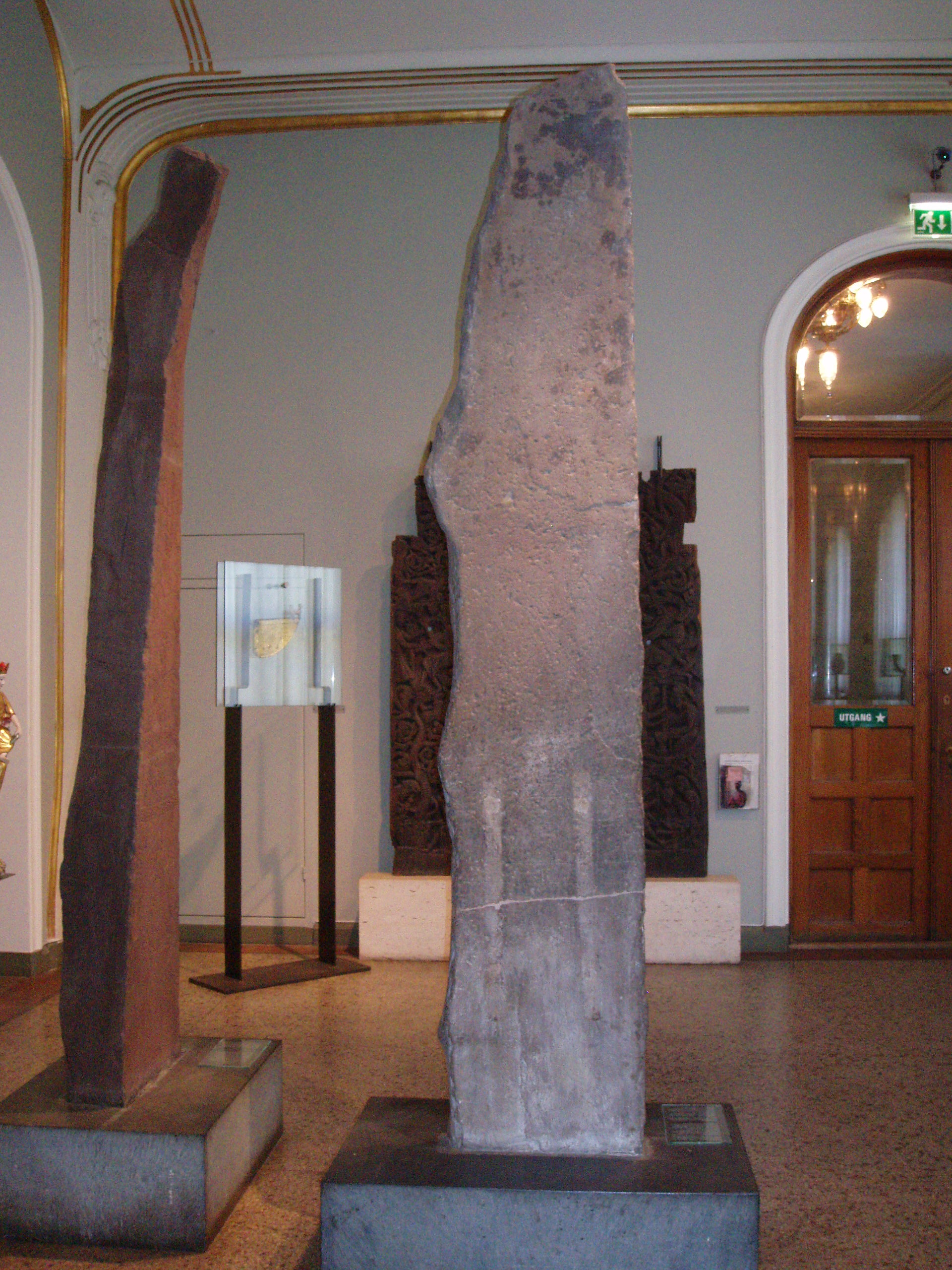 One side of the Alstad runestone as displayed in the Museum of Cultural History in Oslo, Norway. The stone was discovered in Alstad, Toten, Oppland, Norway. The Alstad runestone is the rightmost stone in the picture. The Alstad stone is according to the object display dated to ca. 1000 CE. The stone features both runic inscriptions and ornamentation/images.